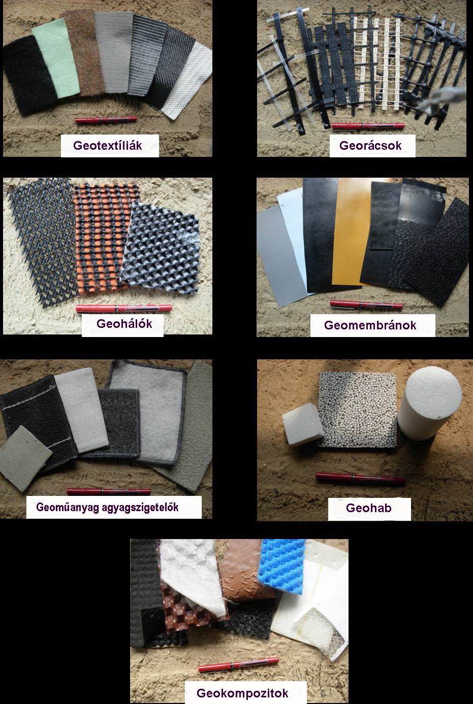 Various Categories of Geosynthetic Products